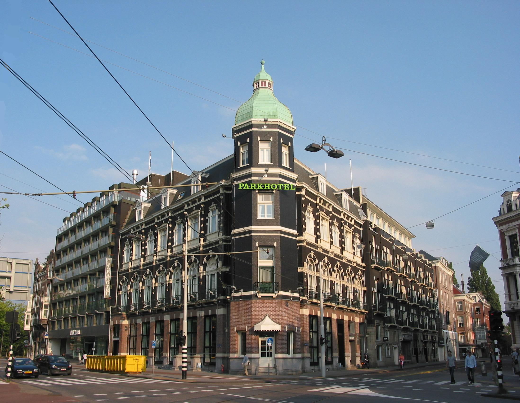 Parkhotel, Amsterdam.